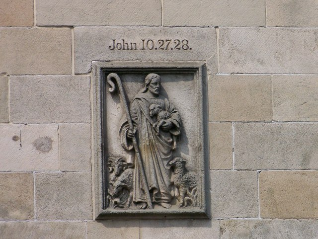 Stone Panel on building in Low Waters Road, Hamilton. This panel is at the first floor level of the building in 812886 The text is "My sheep hear my voice, and I know them, and they follow me: And I give unto them eternal life; and they shall never perish, neither shall any man pluck them out of my hand." I've quoted the King James Bible as that would be the version used at the end of the 19th century when the homes were built.